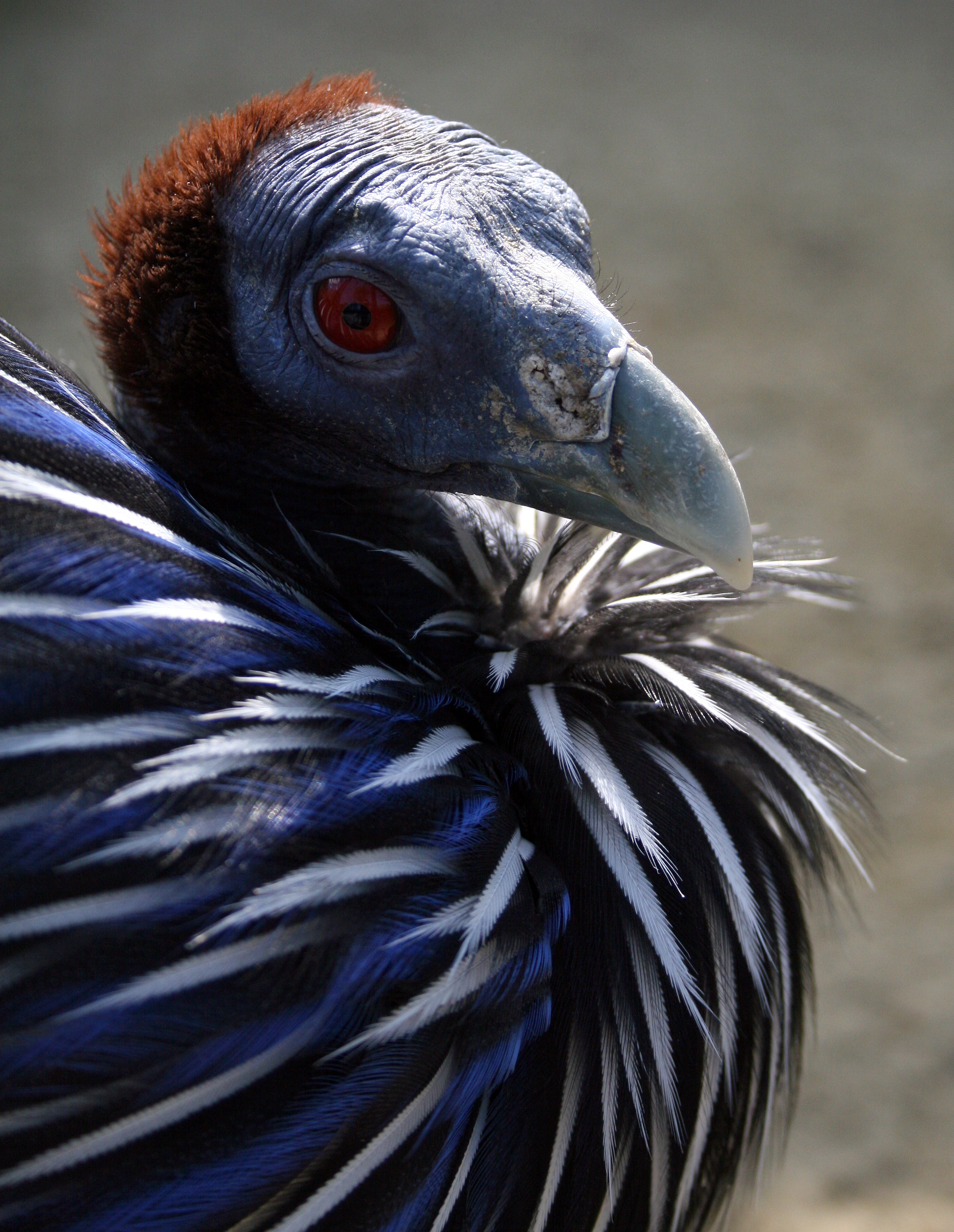 Vulturine Guineafowl at the Tiergarten Schönbrunn in Vienna